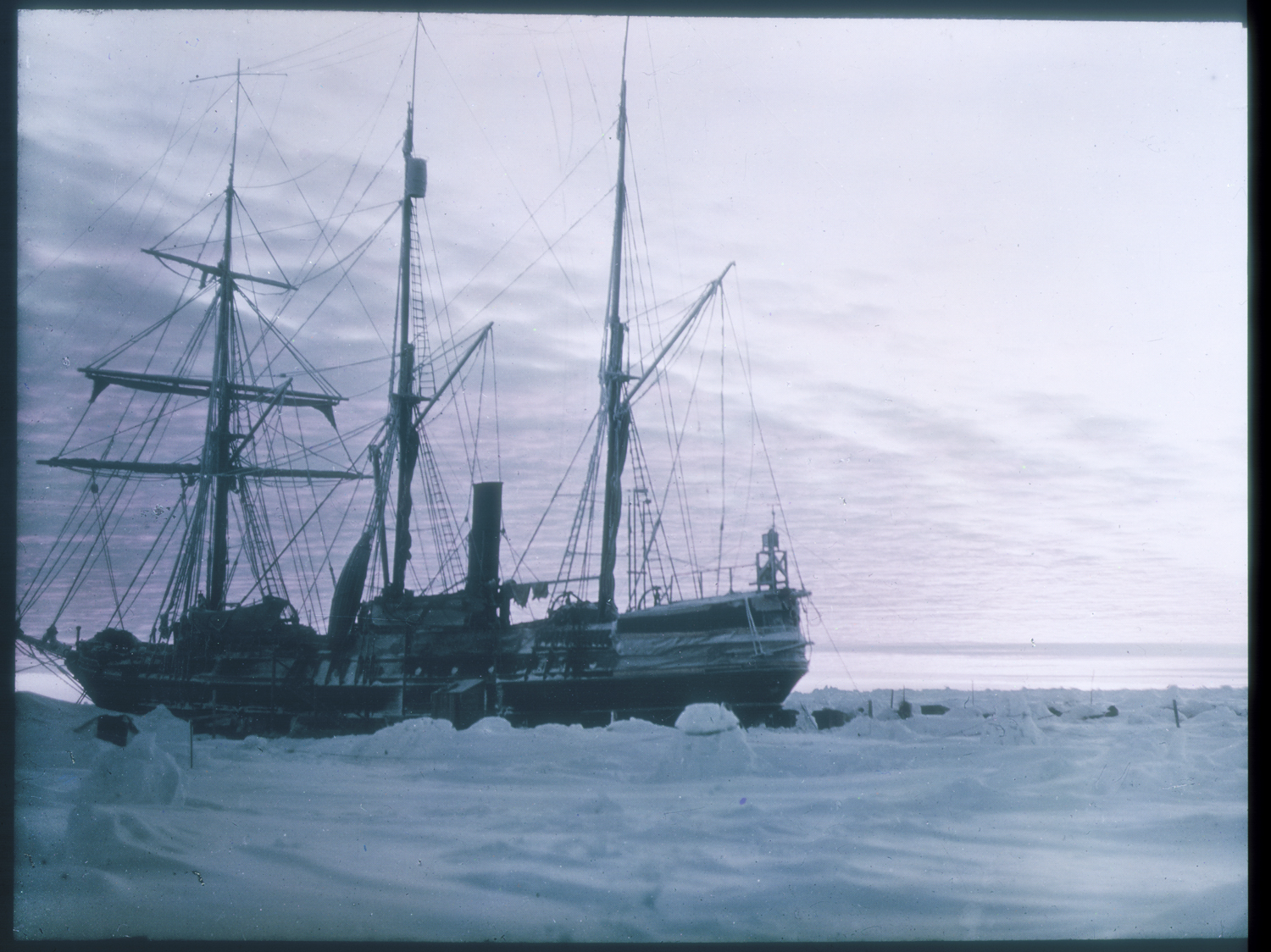 Photograph of the ship Endurance in Antarctica taken during the British Imperial Trans-Antarctic Expedition, 1914-1917